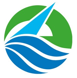 Kami Hyogo chapter